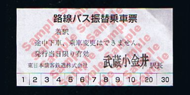 This is the special ticket of transfer by bus when train accident in Musashi-Koganei station of JR East. The red "Sample" images is draw by excl-zoo. ja: 武蔵小金井駅で発行されるバス振替乗車証。赤い「Sample」の文字は excl-zoo が描き加えた。